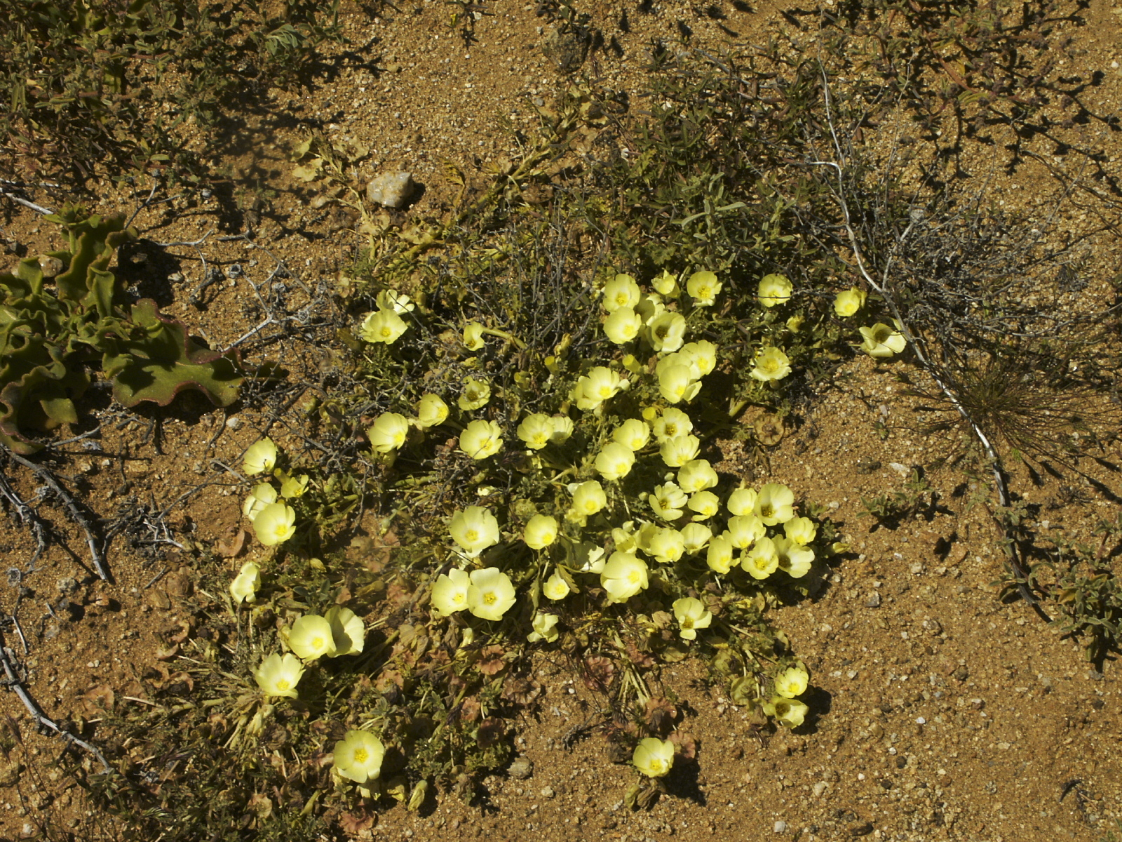 White-eyed Duiker Root ( Grielum humifusum Thunb. ), flowering Desert, Namaqualand, Goegap Nature Reserve, Northern Cape, South Africa